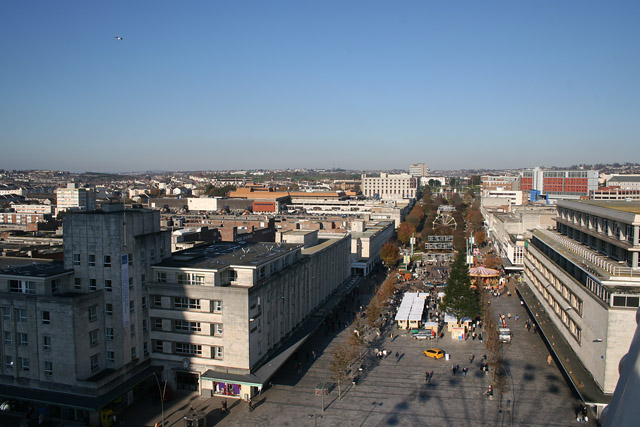 Armada Way, Plymouth. Armada Way is the city centre's main thoroughfare. It stretches from Royal Parade to the North Cross Roundabout on the northern boundary of the square. Plymouth city centre underwent major rebuilding to a grid plan of wide streets and rectangular blocks of imposing shops and offices after the Second World War. Dingle's department store is on the right. This photograph was taken from the top of the large ferris wheel on Royal Parade.